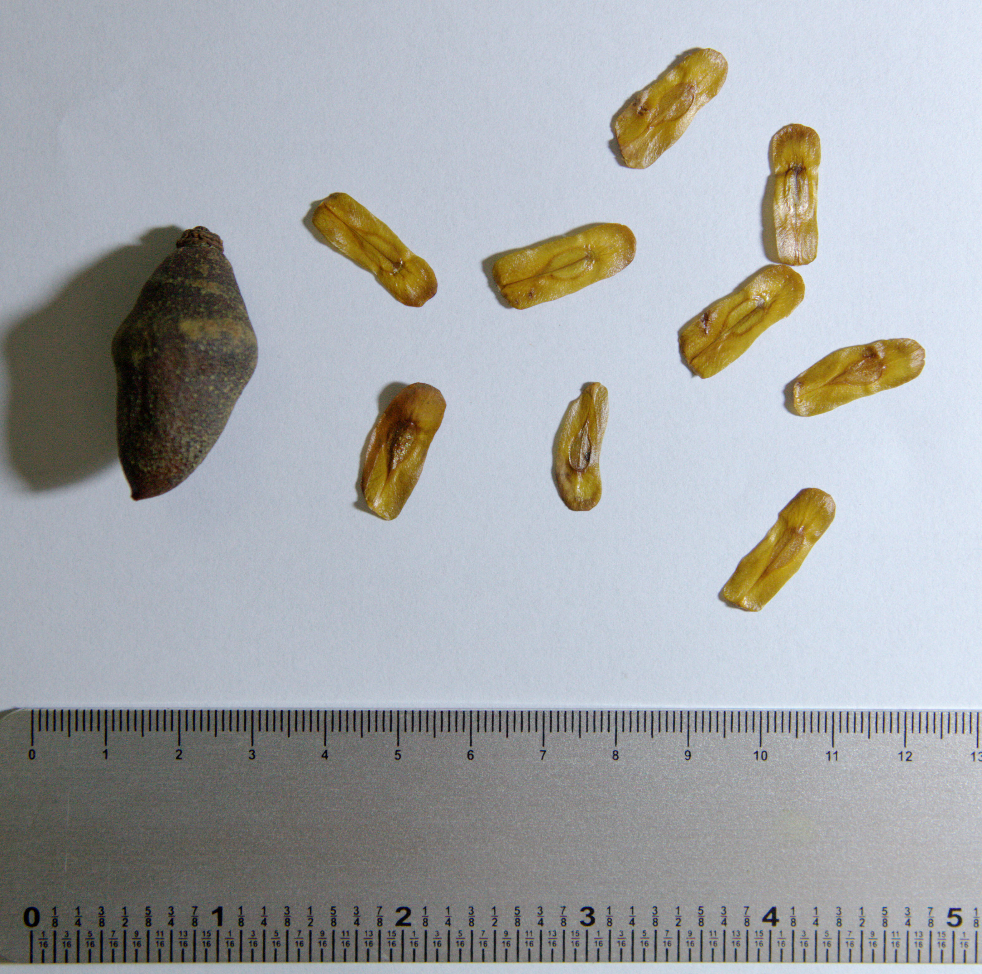 seeds and fruit of the Dedaleiro (Lafoensia pacari)